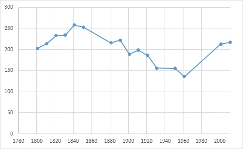 Graph tracking the population of the Parish of St Cross, South Elmham